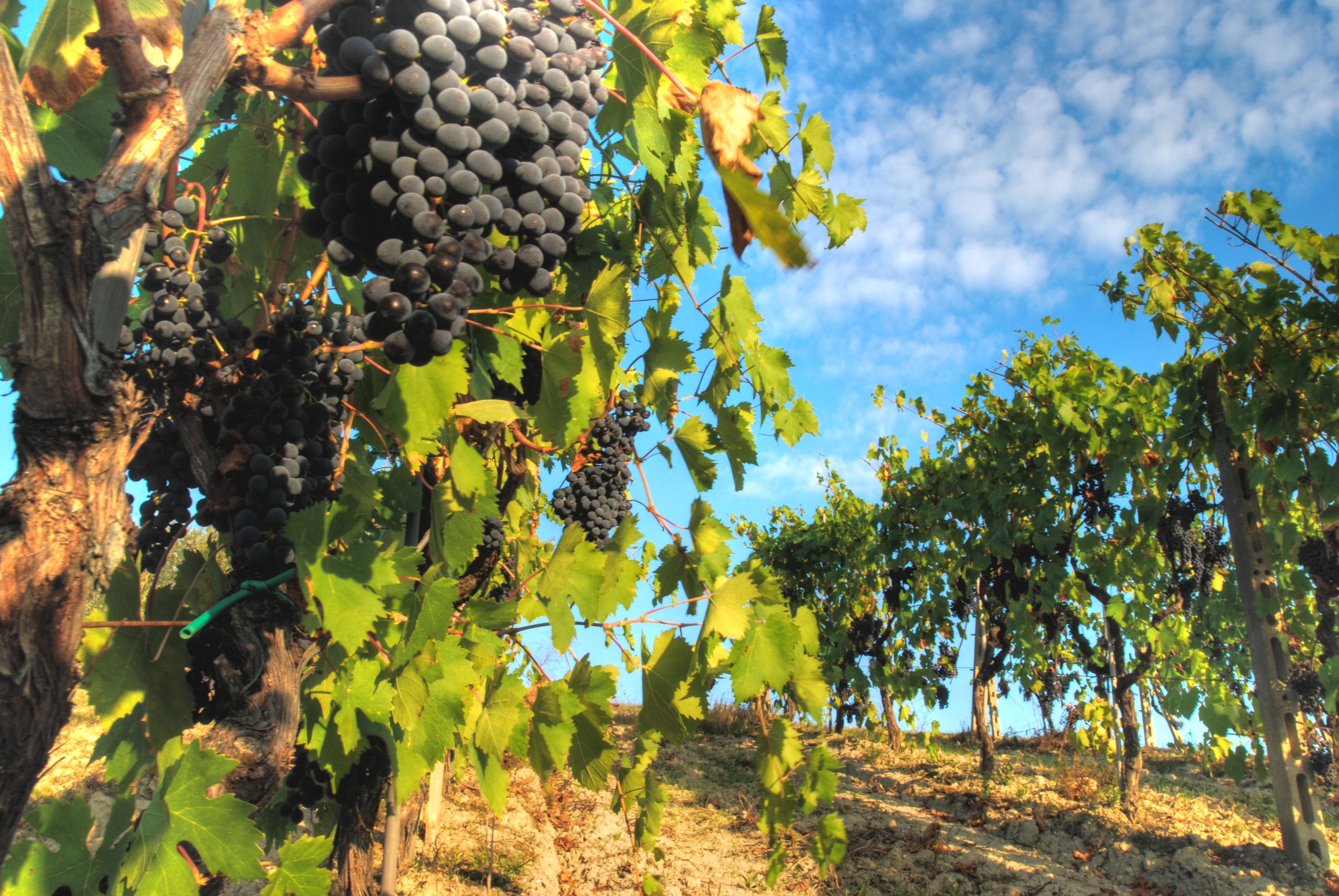 Sangiovese grapes on the vine in the Italian wine region of Chianti